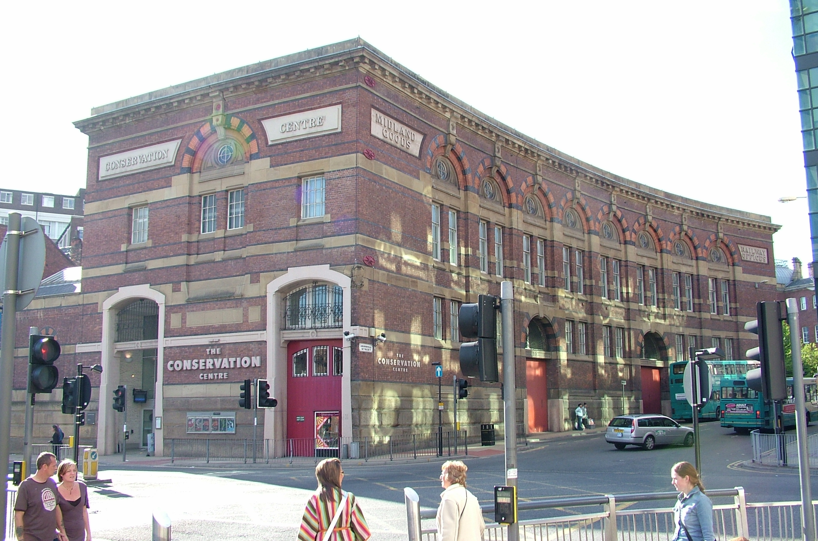 Midland Goods Building. Taken by Chris Howells, September 2005.